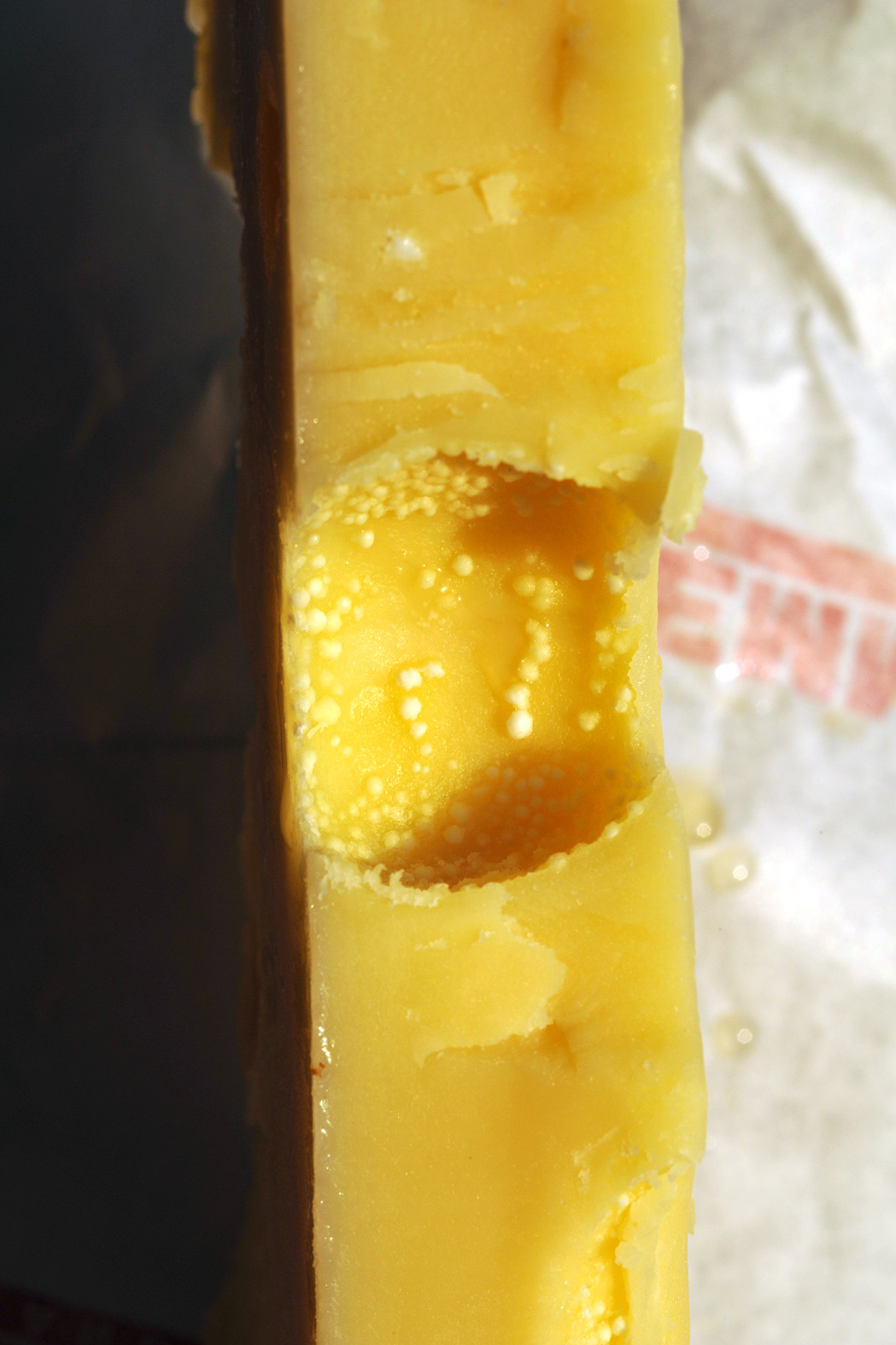 Typical salt crystallisation and drops of a 2 1/2 year old Emmentaler.